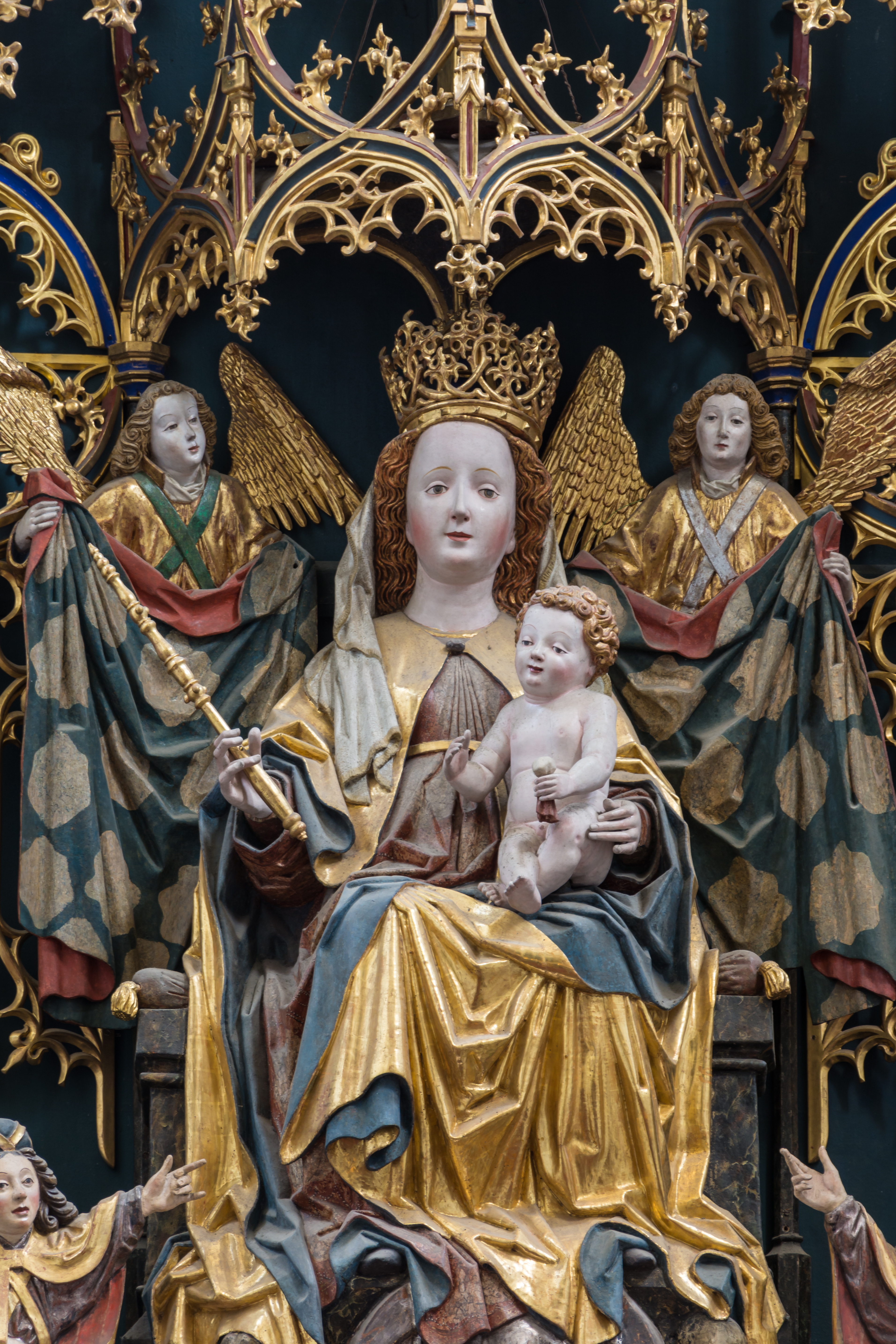 Madonna and Child at the winged altar of the parish- and pilgrimage church Maria Laach am Jauerling, Lower Austria. Anonymous master, 1480.